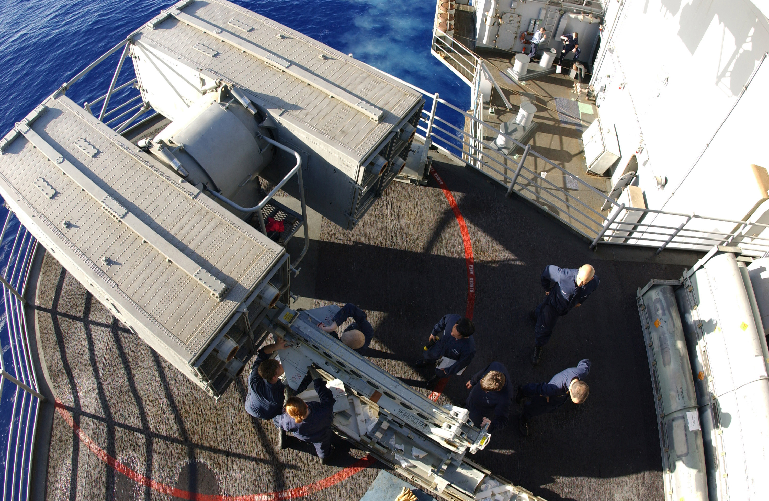 Pacific Ocean (May 21, 2004) - Combat Systems personnel download a RIM-7 Sea Sparrow missile from a NATO defense weapon system aboard USS Kitty Hawk (CV 63). The Sea Sparrow is a highly maneuverable, all weather, beyond visual range, semi-active radar homing surface-to-air missile used by the United States, NATO and other allied forces. Currently under way in the 7th Fleet Area of Responsibility, Kitty Hawk demonstrates power projection and sea control as the U.S. Navy's only permanently forward-deployed aircraft carrier, operating from Yokosuka, Japan. U.S. Navy photo by Photographer's Mate 3rd Class Jason T. Poplin (RELEASED)